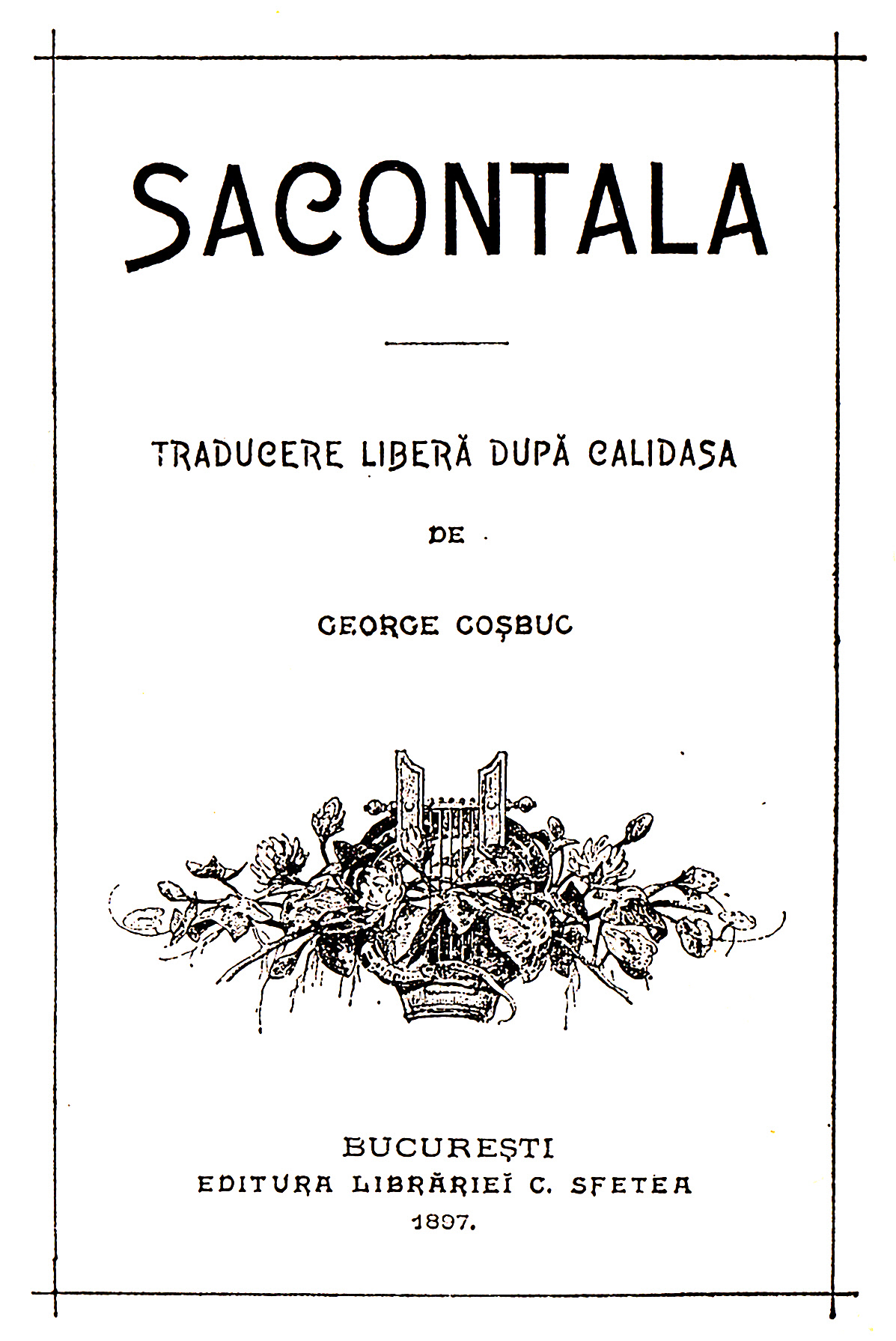 First page of George Coşbuc's Sacontala, a Romanian version of Abhijñānashākuntala, "freely translated from Calidasa [i.e. Kālidāsa]".